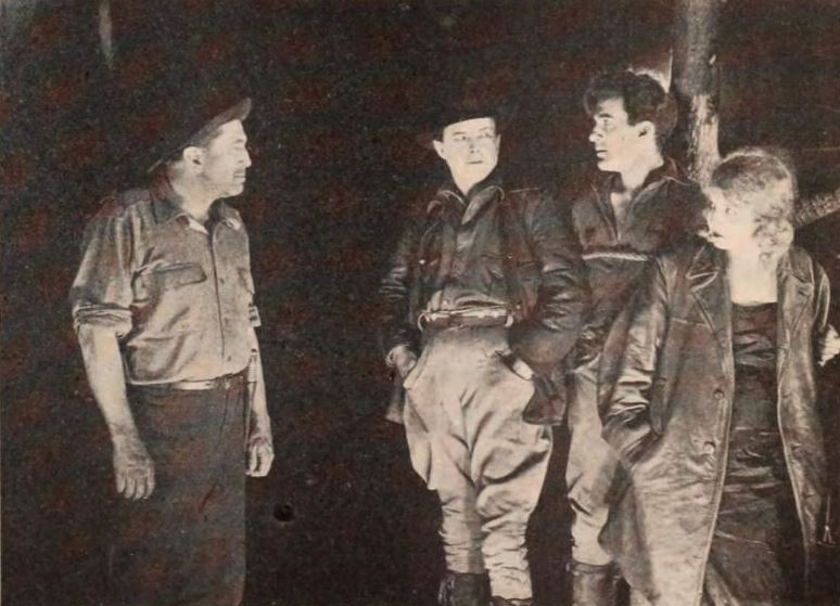 Still from the American drama film The Torrent (1921) with Jack Curtis, an unidentified actor, Jack Perrin, and Eva Novak, on page 91 of the March 5, 1921 Exhibitors Herald.